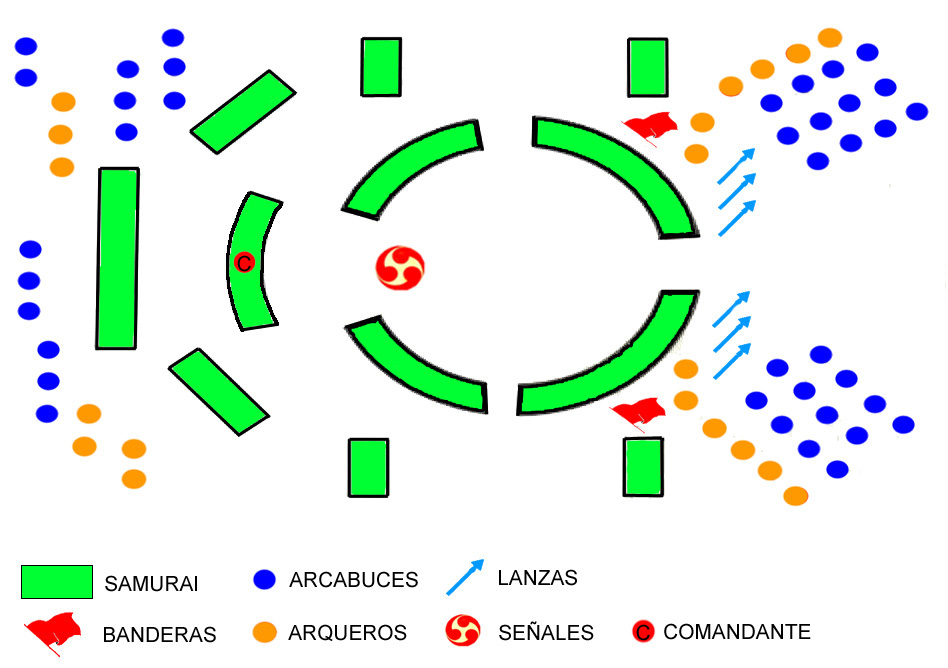 Samurai formation called "Saku", used during Azuchi-Momoyama period of japanese history.